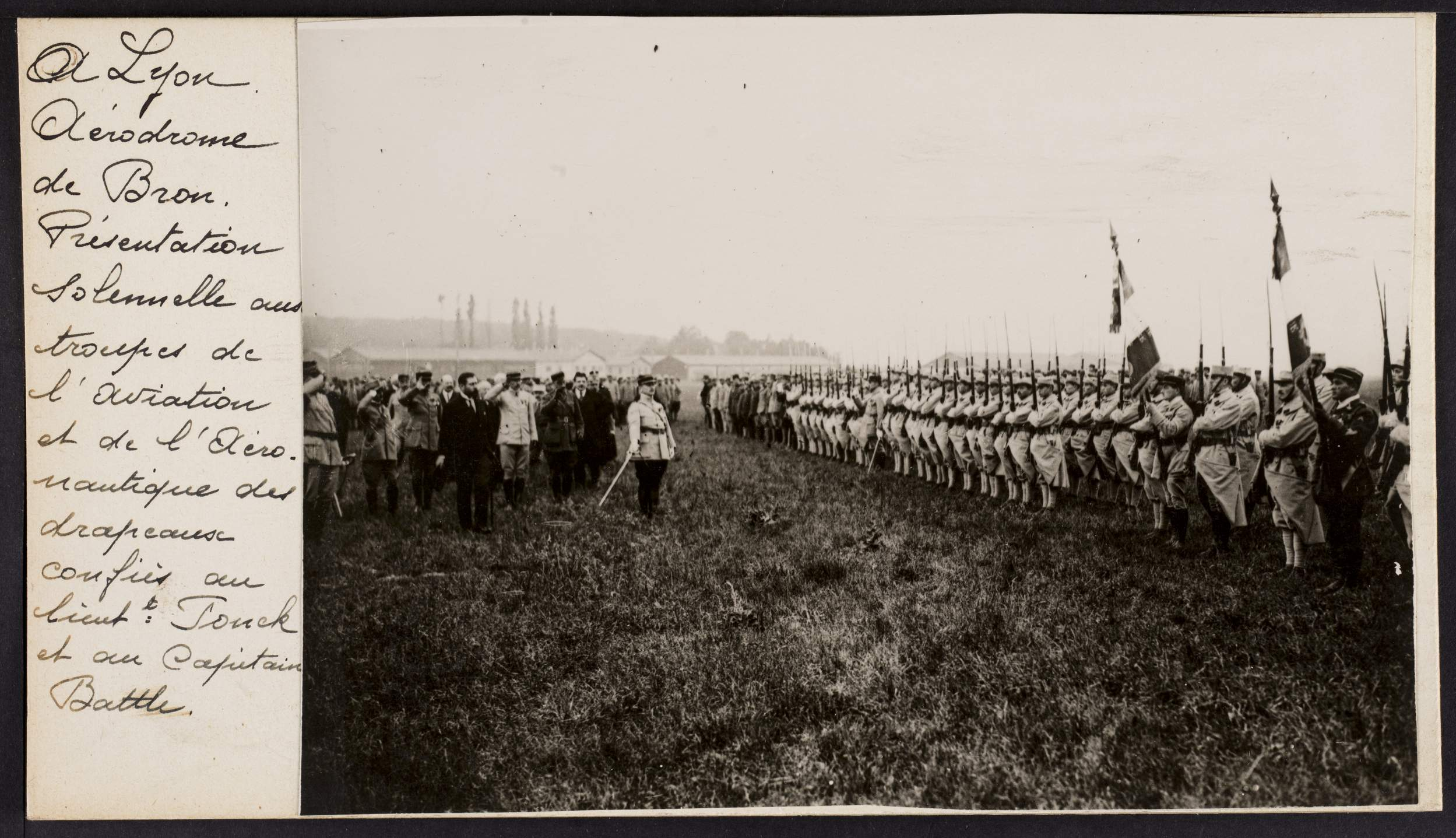 A Lyon. Aérodrome de Bron. Présentattion des drapeaux confiés au lieutenant Fonck et au capitaine Battle.